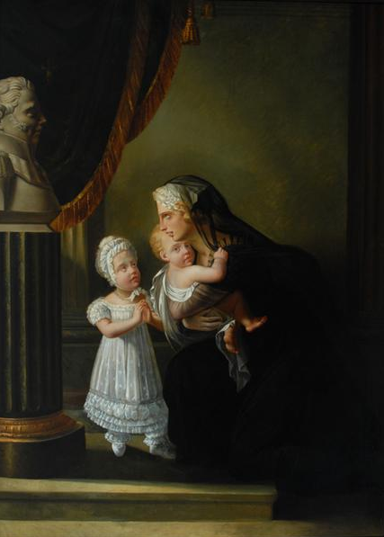 The Dowager Duchess of Berry in mourning with her two children praying to a bust of her husband in circa 1822 by Gérard